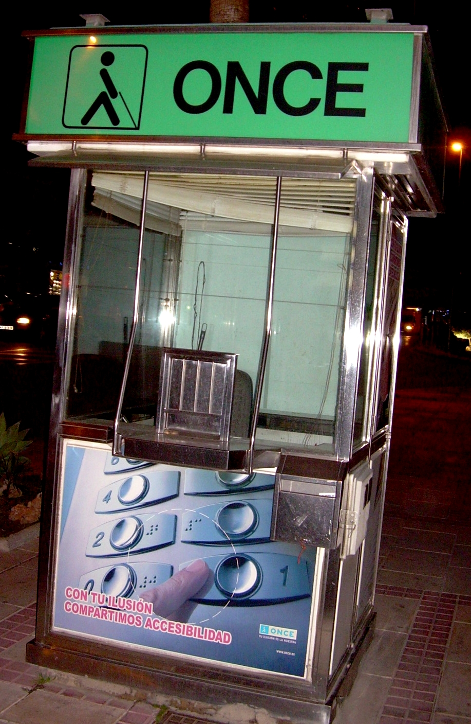 ONCE Lottery Coupons Selling Point in Avenida Cristobal Colón, Alhaurín de la Torre, Málaga, Spain.